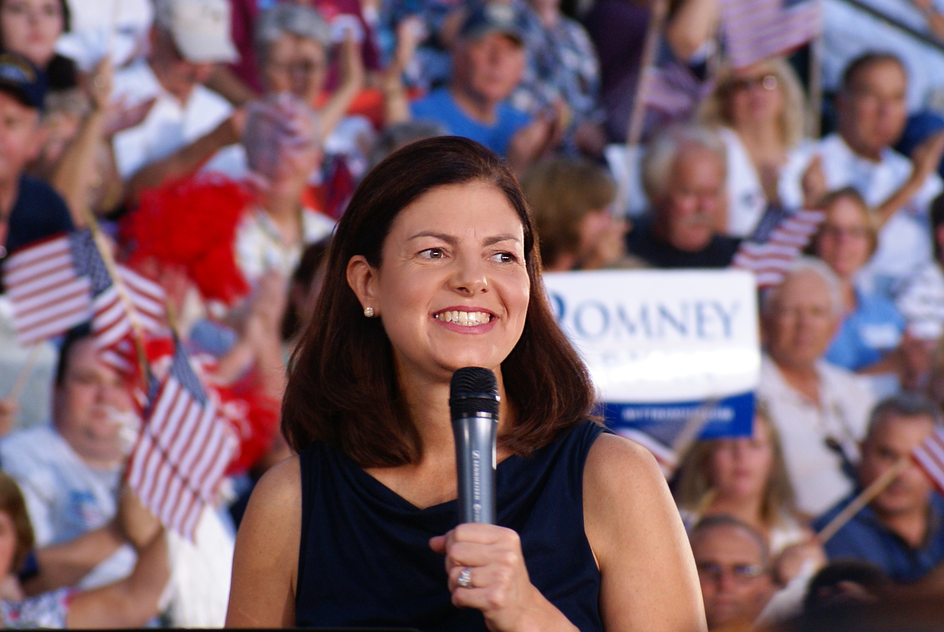 @ Nashua, NH